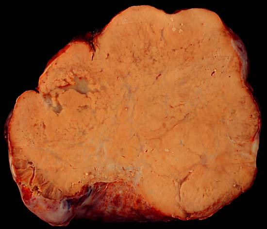 This middle-aged woman presented with an acute abdomen. Exploratory laparotomy showed a very large perforated gastric ulcer in an otherwise thickened, tumefactive stomach. The ovaries showed enlargement and replacement by tumor. This ovary weighed 283 grams and measured 9.5 x 8.0 x 6.0 cm. The Krukenberg tumor is classically a metastatic signet ring cell adenocarcinoma arising in the stomach and metastasizing to the ovaries. Other primary sites have been described, and a few cases have no detectable primary. The photo was taken with a Minolta X-370 with 100mm Rokkor bellows lens on Kodak Elite ISO 100 film. The illumination was four Photofloods, and a blue compensating filter was used to balance color properly for this daylight-balanced film. The exposure was probably something like 1/8 second at f/5.6 Photograph by Ed Uthman, MD. Public domain. Posted 18 May 00